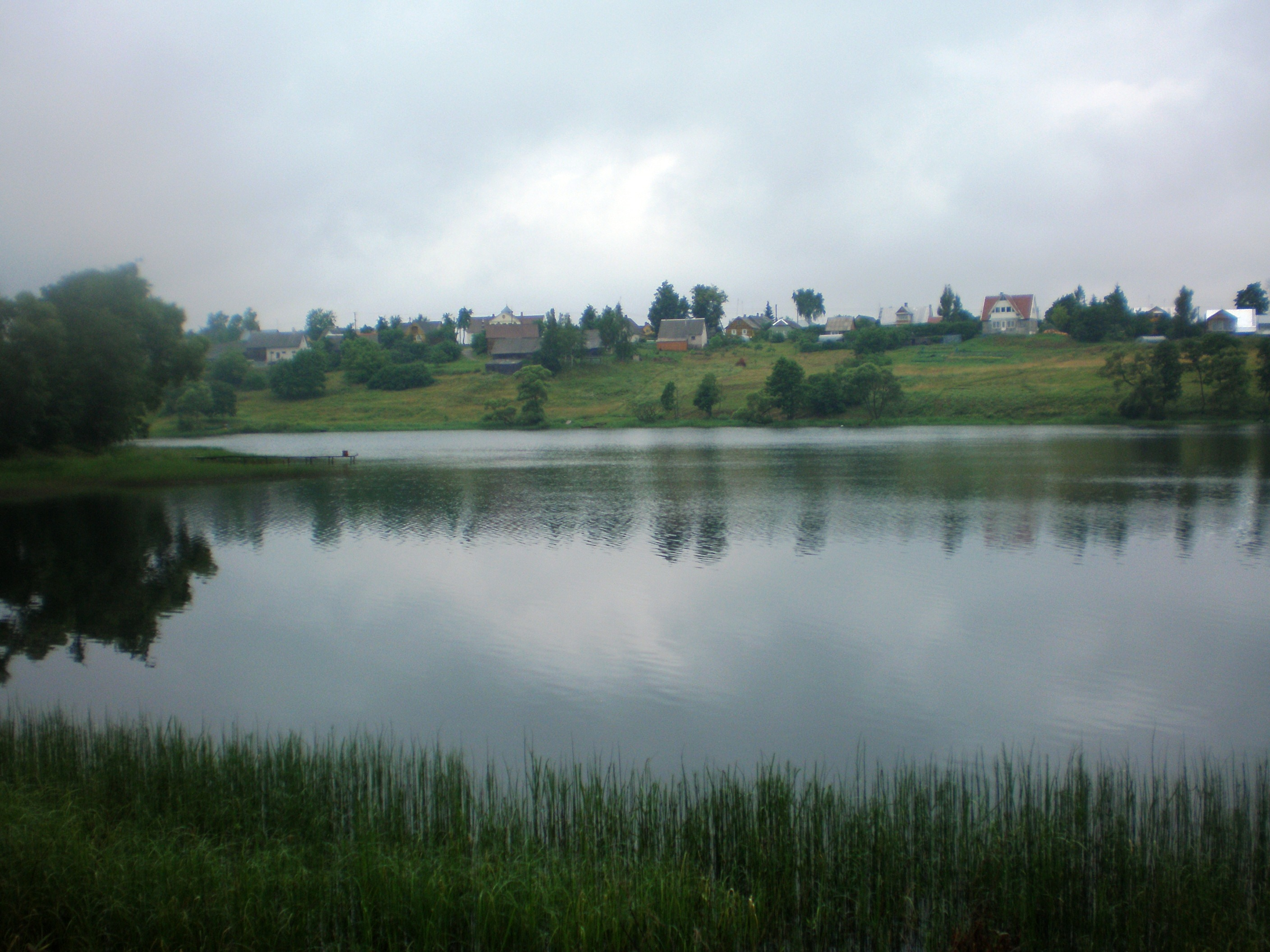 Tauragnas Lake and Tauragnai town